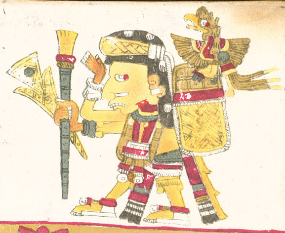 A drawing of Zacatzontli, one of the deities described in the Codex Borgia